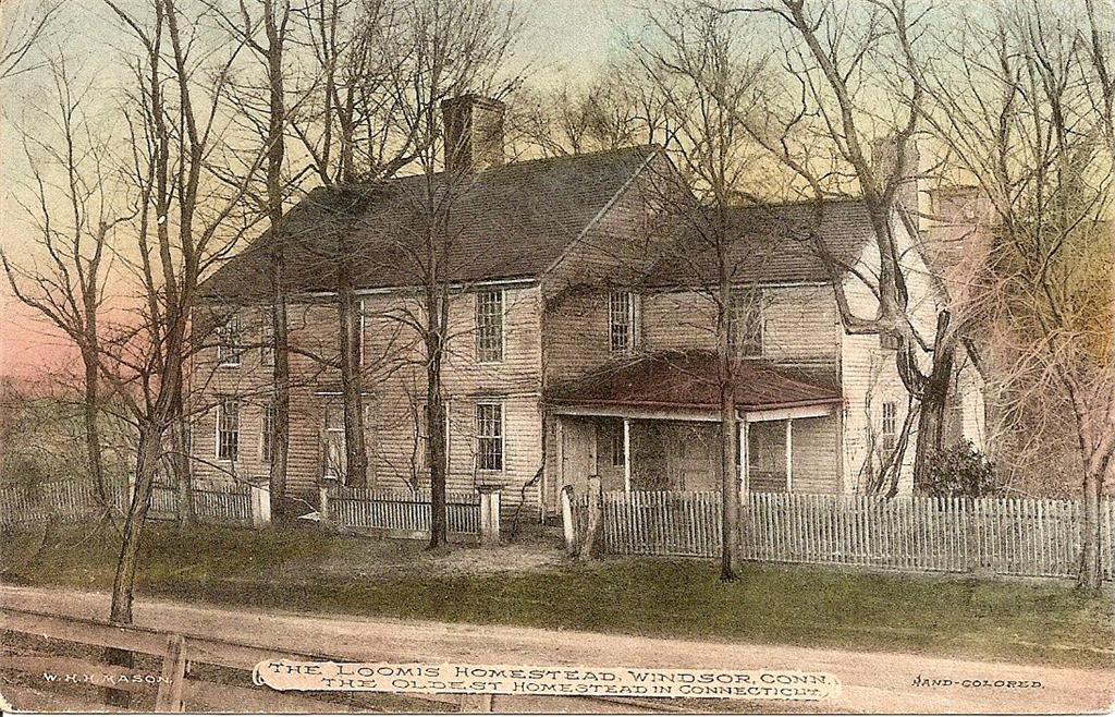 Postcard: Loomis Homestead in Windsor, Connecticut, said to be the oldest house in the state; 1910 postmark Caption: "The Loomis Homestead, Windsor, Conn. The oldest homestead in Connecticut" Description: On front of postcard: "W. H. H. Mason" "hand-colored" Description from Web page: "postmarked October 3, 1910, Windsor, Connecticut (stamp removed)"